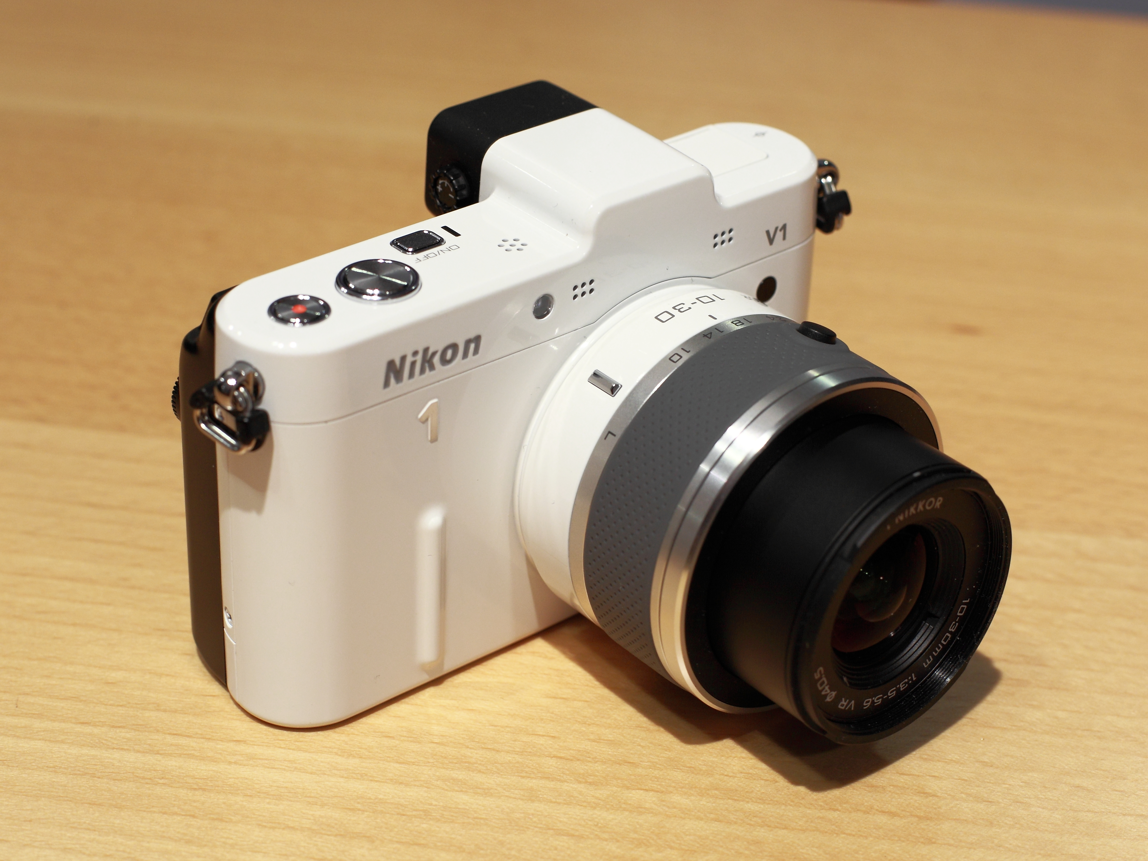 Nikon 1 V1 with Nikkor 10-30mm (27-81mm @ 35mm) lens